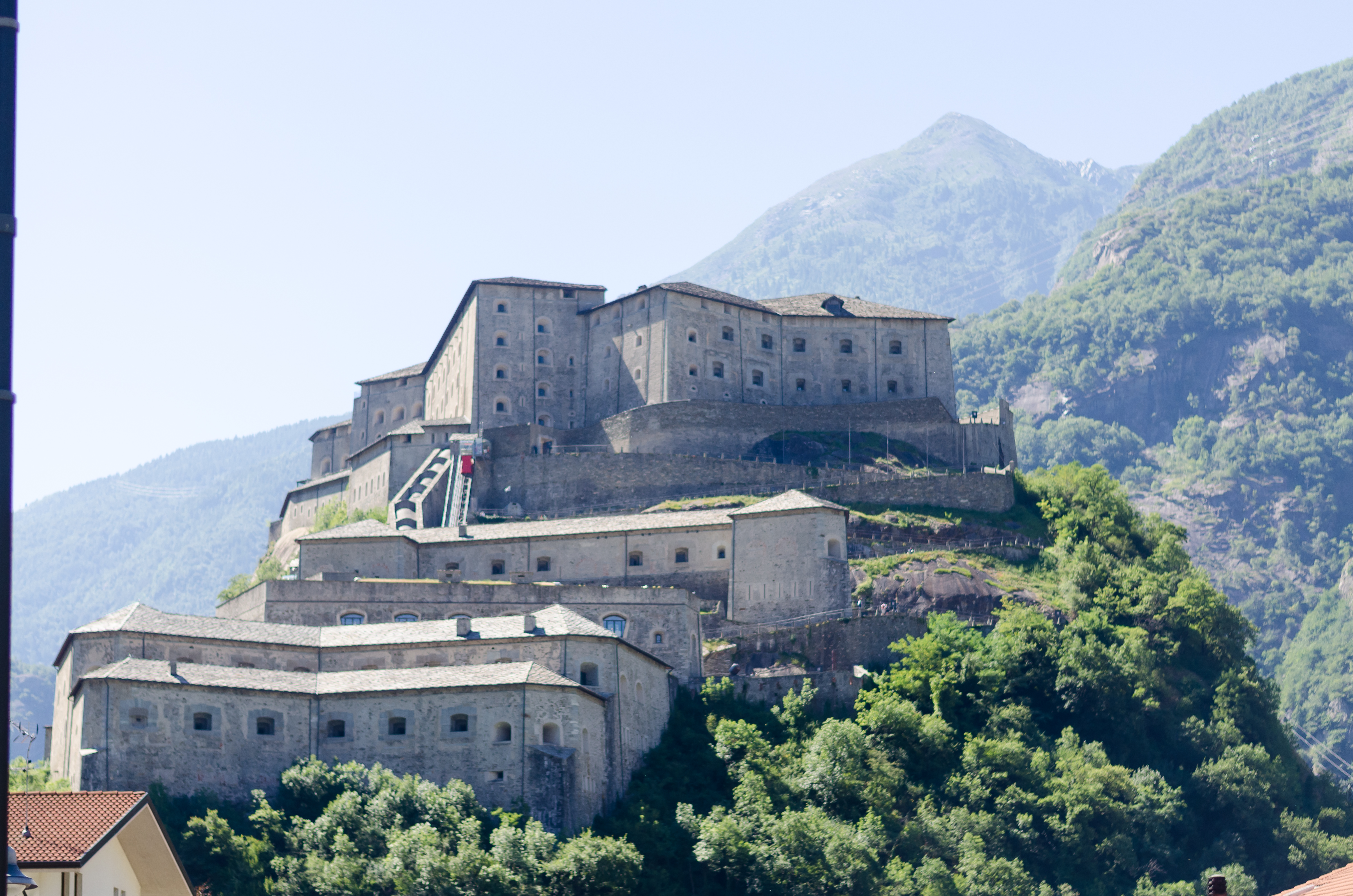 Forte di Bard in Aosta Valley, Italy.